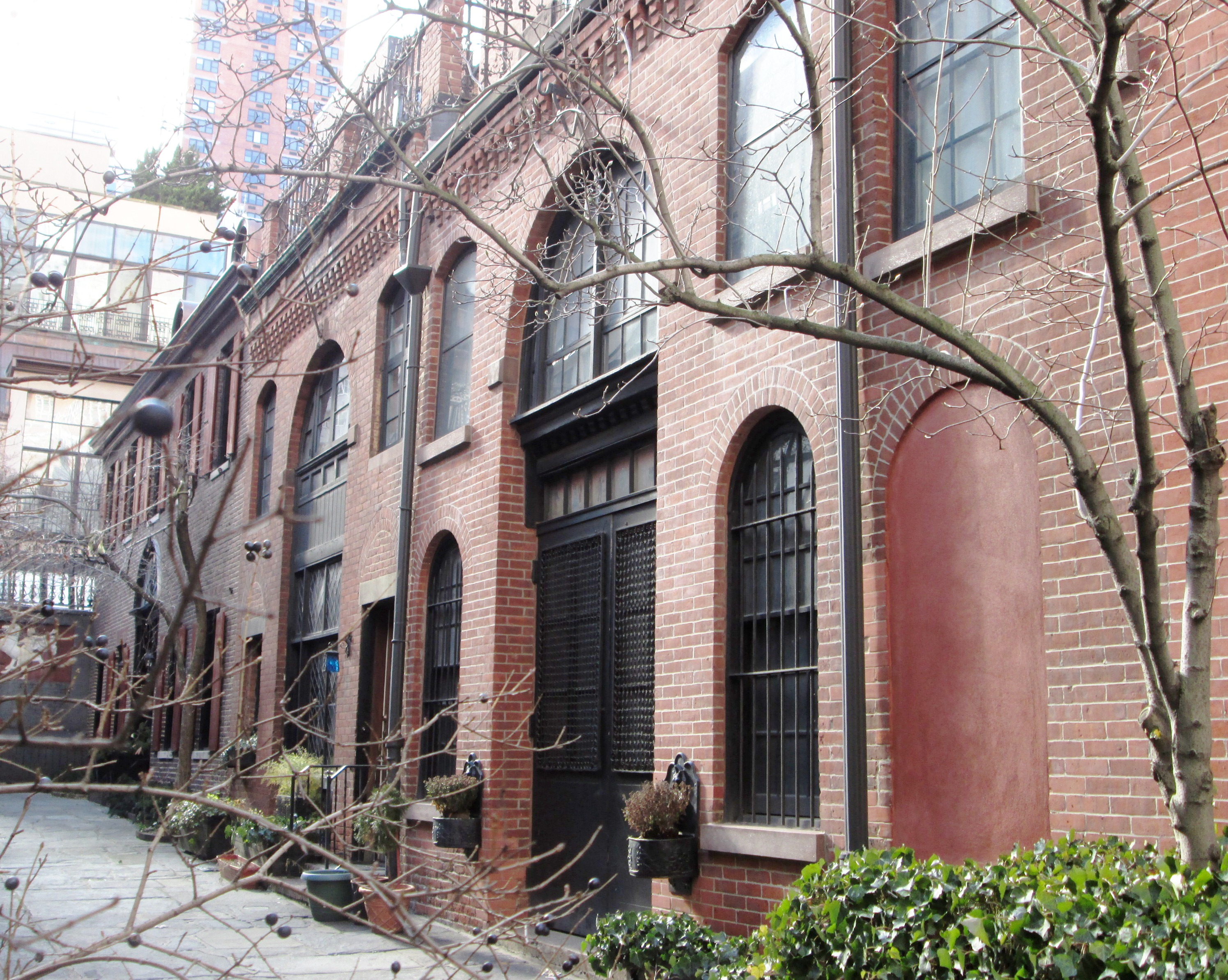 The Sniffen Court Historic District, located off of East 36th Street between Third and Lexington Avenues in the Murray Hill neighborhood of Manhattan, New York City, was created in 1966, and consists of 10 two-story brick stables built in 1863-1864 in the early Romanesque Revival style, which were converted into residences and studios in the 1920s; two of the (#1 and #3) are the home of the Amateur Comedy Club, which has been in existence since 1884. The rear wall of the mews has two sculpted plaques by Malvina Hoffman, whose studio was in one of the buildings. (Sources: Guide to NYC Landmarks (4th ed.) and "Amateur Comedy Club brochure") These buildings are on the west side of the mews.